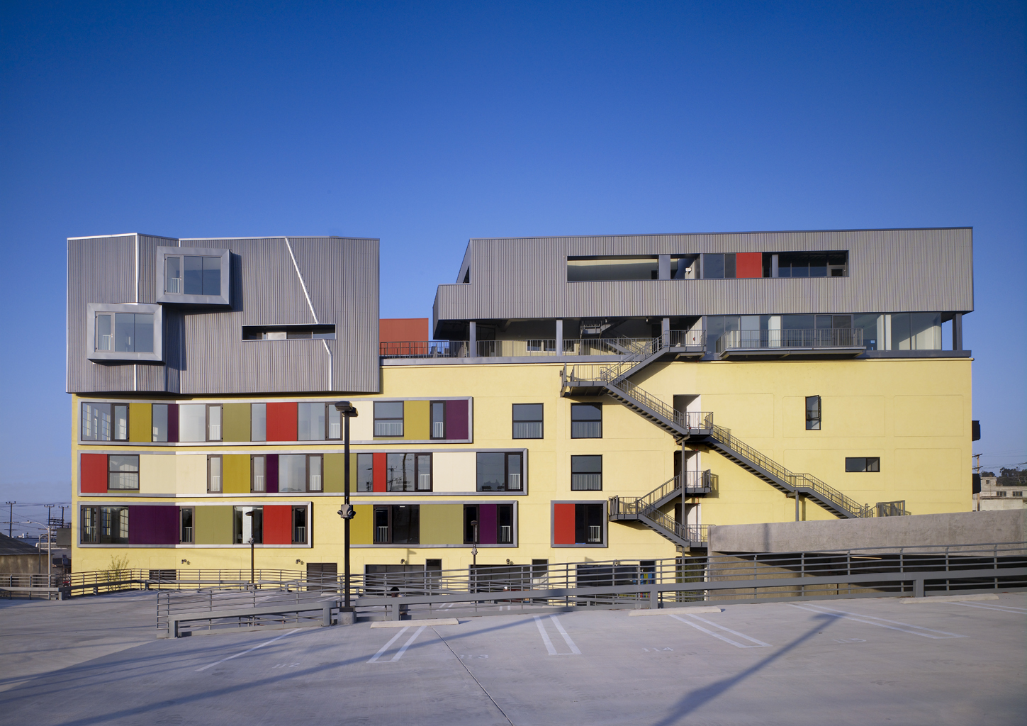 A prime example of smart urban development, the Fuller Lofts project is a 103,500 sq. ft. adaptive reuse and nearly 30,000 sq. ft. vertical expansion of a 1920s concrete industrial building in a depressed neighborhood of east Los Angeles. Located convenient to a station on a recently constructed light-rail line, the Fuller Lofts was the first transit-oriented development begun in the area and has spurred the revitalization of Lincoln Heights. Consisting of 102 units of affordable, workforce, and market-rate lofts along with 15,500 sq. ft. of commercial space, the program adds two stories of penthouse lofts above the original four-story structure. Connected by an open-air paseo, a newly constructed two-story parking structure lies directly adjacent.